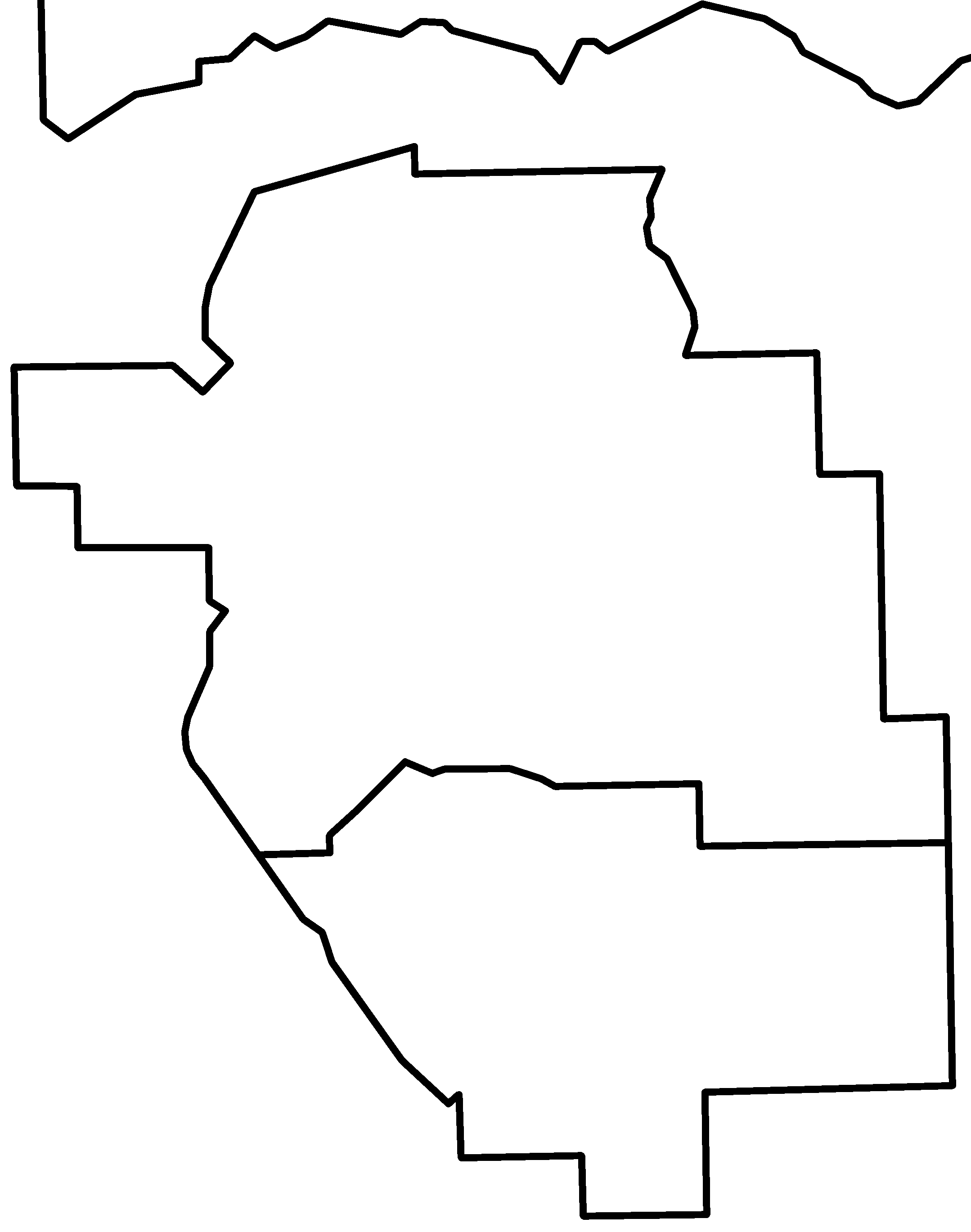 A map of Alberta provincial electoral districts, effective 2010, in the Red Deer area.